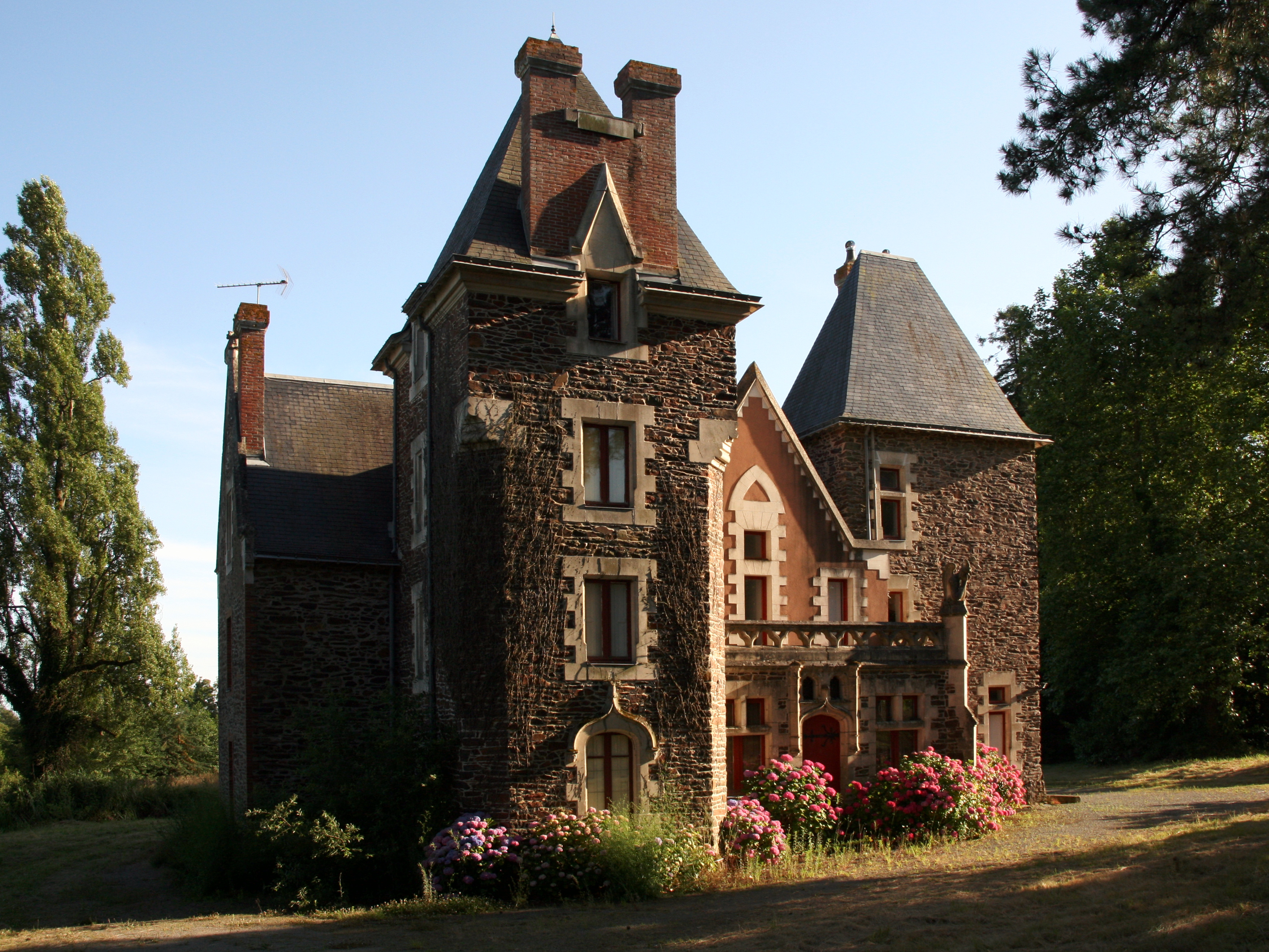 Castle of la Barillette in Saint-Gildas-des-Bois, Loire-Atlantique, France.